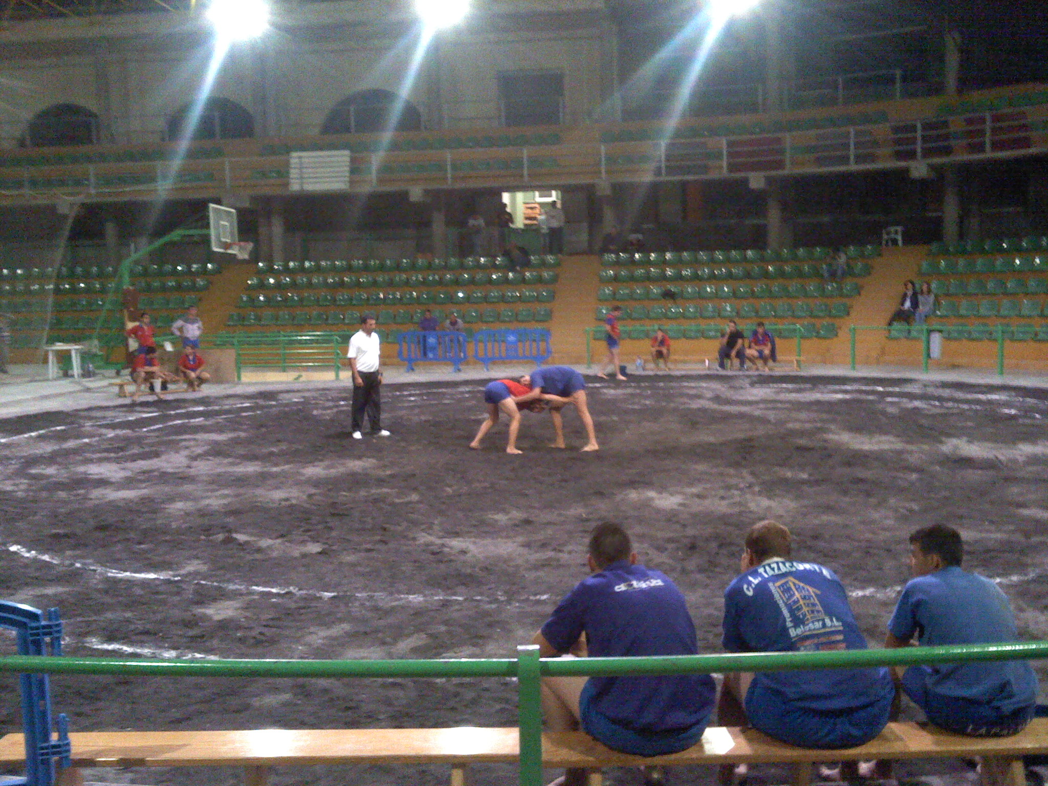 La Lucha in the sports hall of Tazacorte